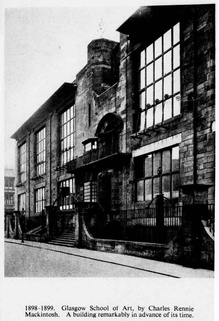 Mackintosh, Charles Rennie, 1868-1928 Persistent URL .au/nla.pic-vn3957644